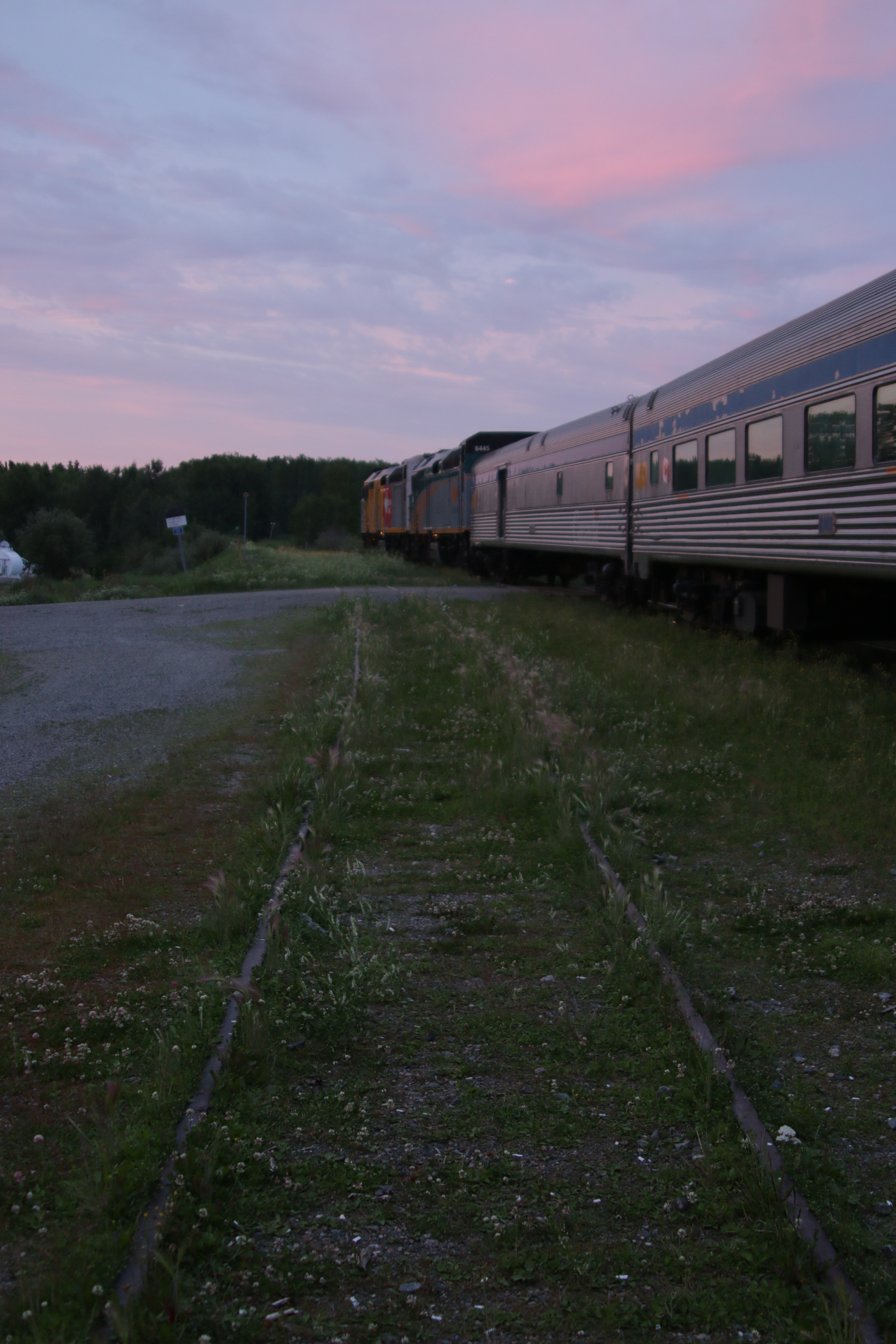 Pikwitonei Station with a Northbound VIA Rail train in July 2019.